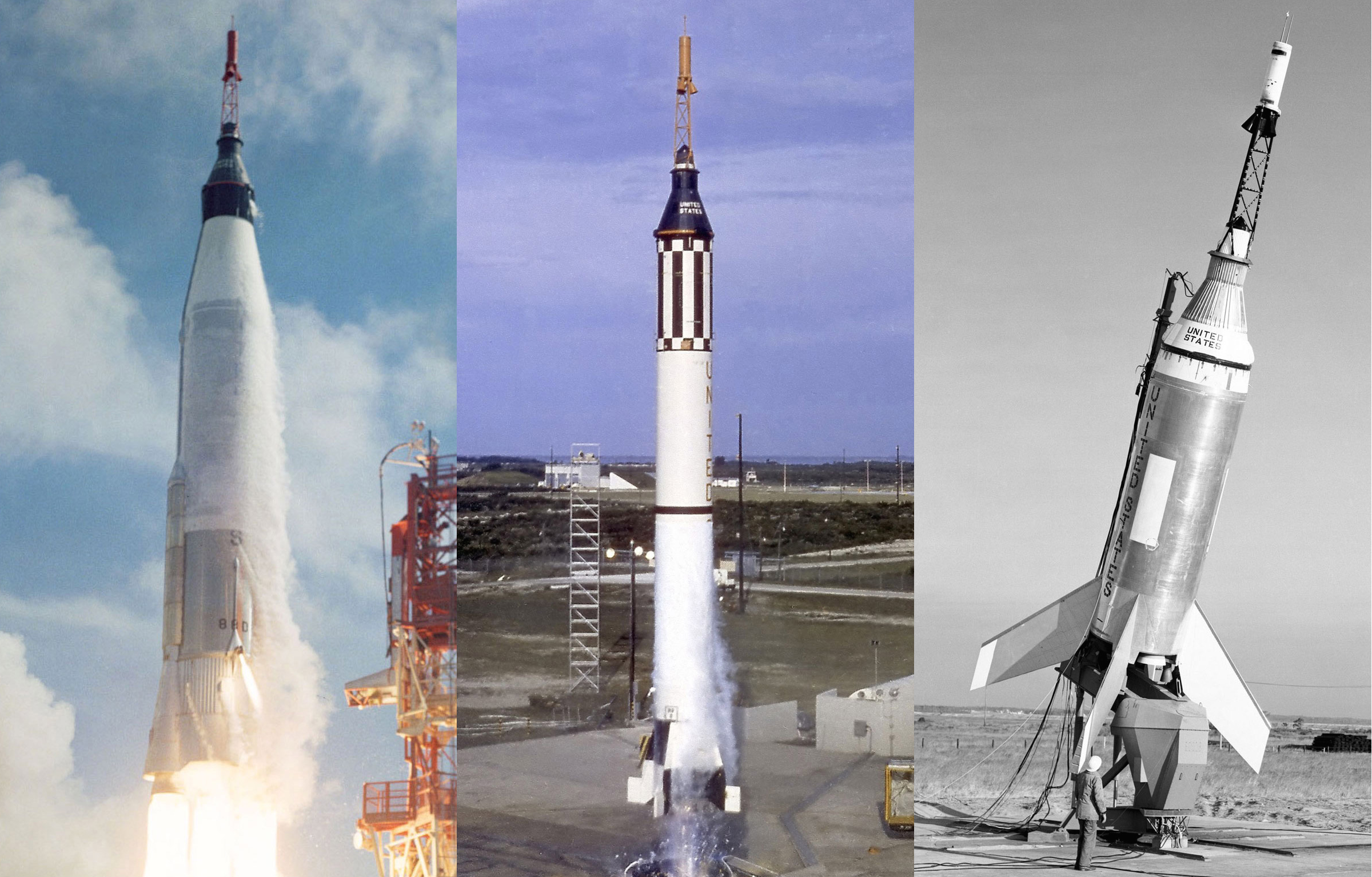 PNG version of File:Mercury-launch-vehicles.jpg